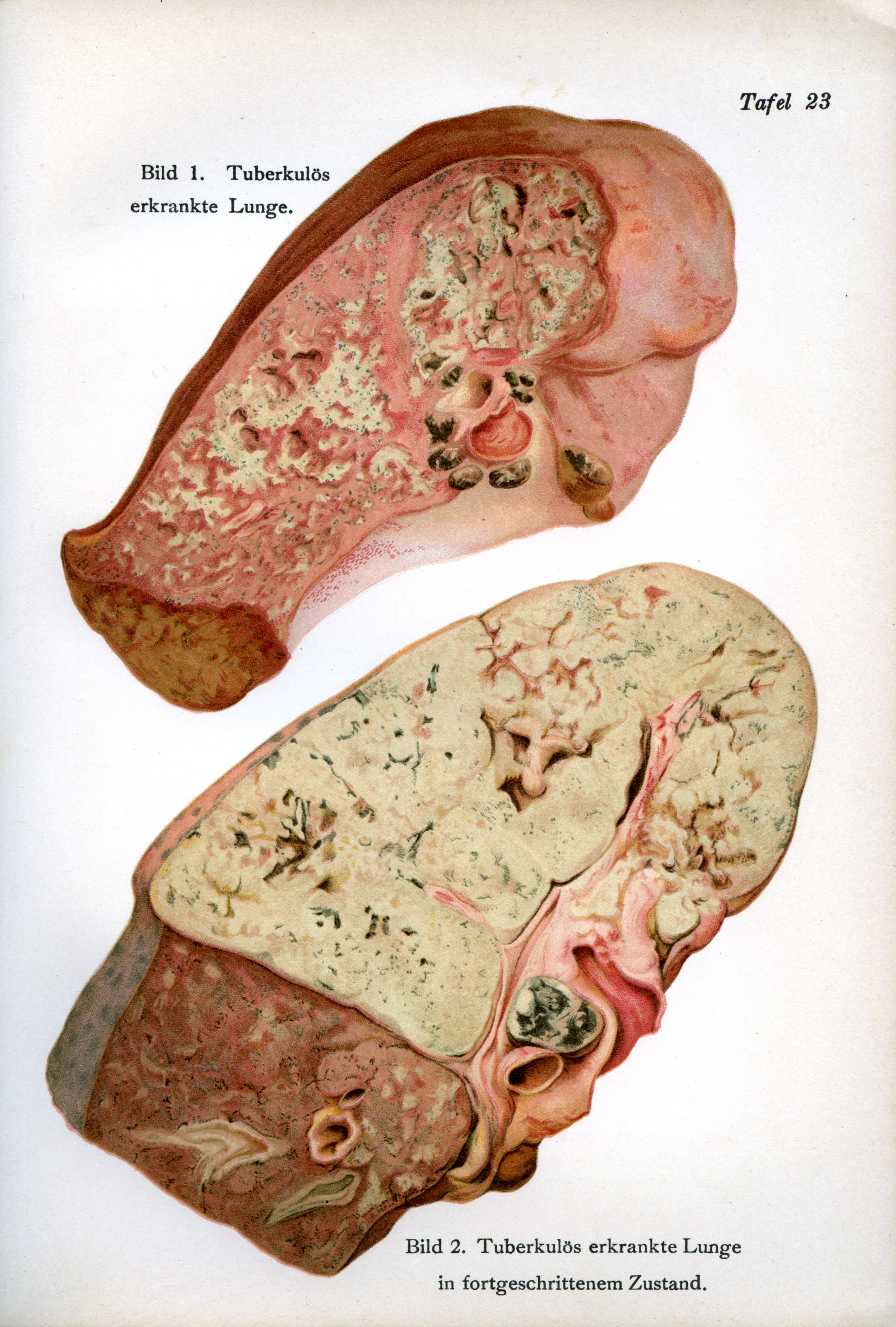 Lung showing tuberculosis infection